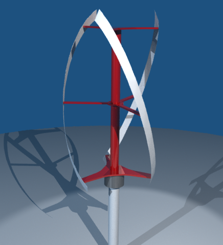 A Blender model of a Quietrevolution wind turbine